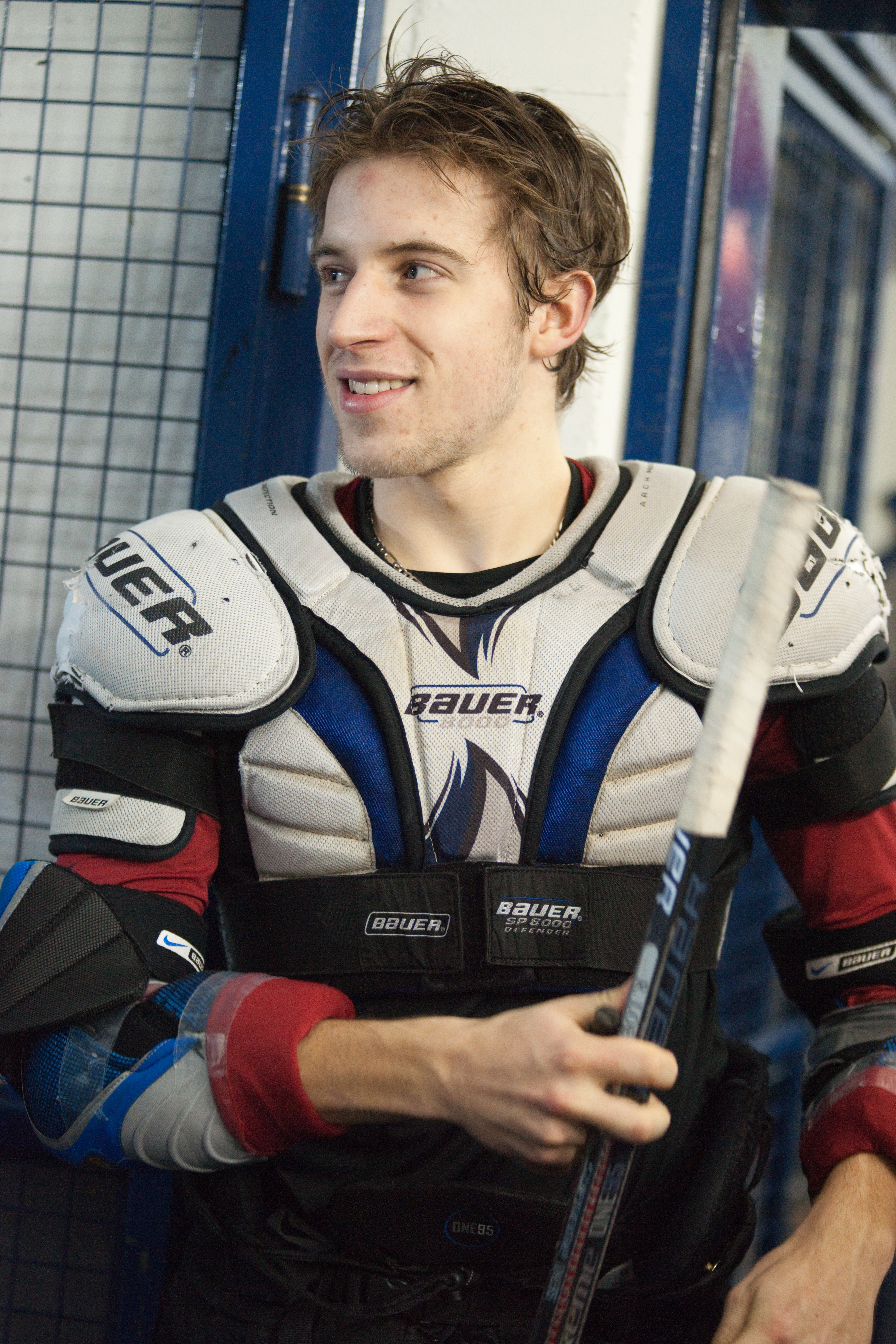 Romain Loeffel, Fribourg-Gottéron vs. Langnau Tigers, 15th January 2010.